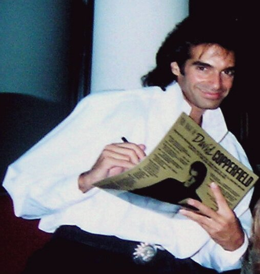 American magician David Copperfield signing his program after a 2007 show at the Bob Carr Performing Arts Centre, Orlando, Florida.